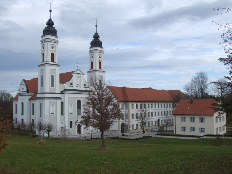 Irsee Abbey, Germany